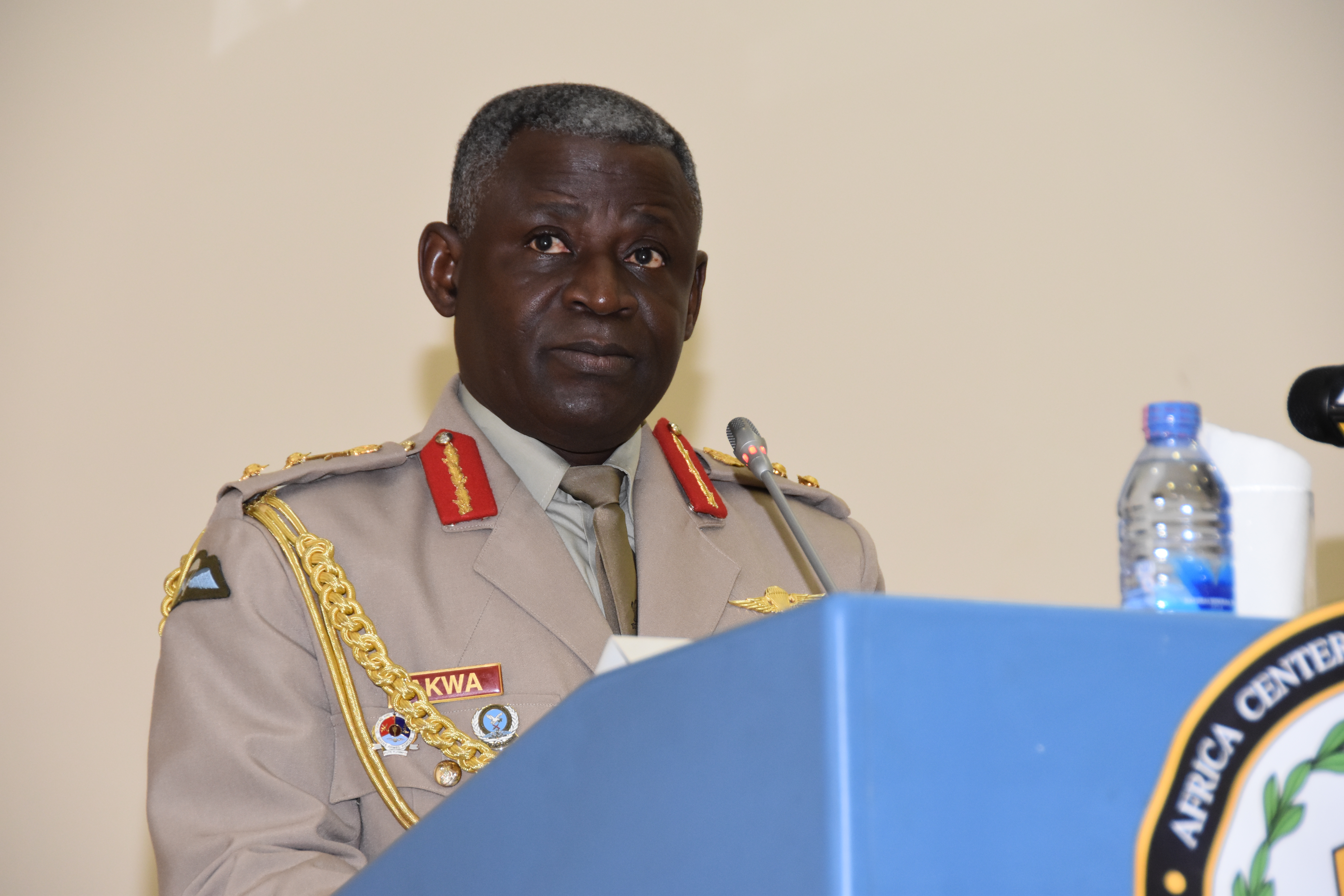 Chief of the Defence Staff of Ghana, Obed Boamah Akwa, holding a speech